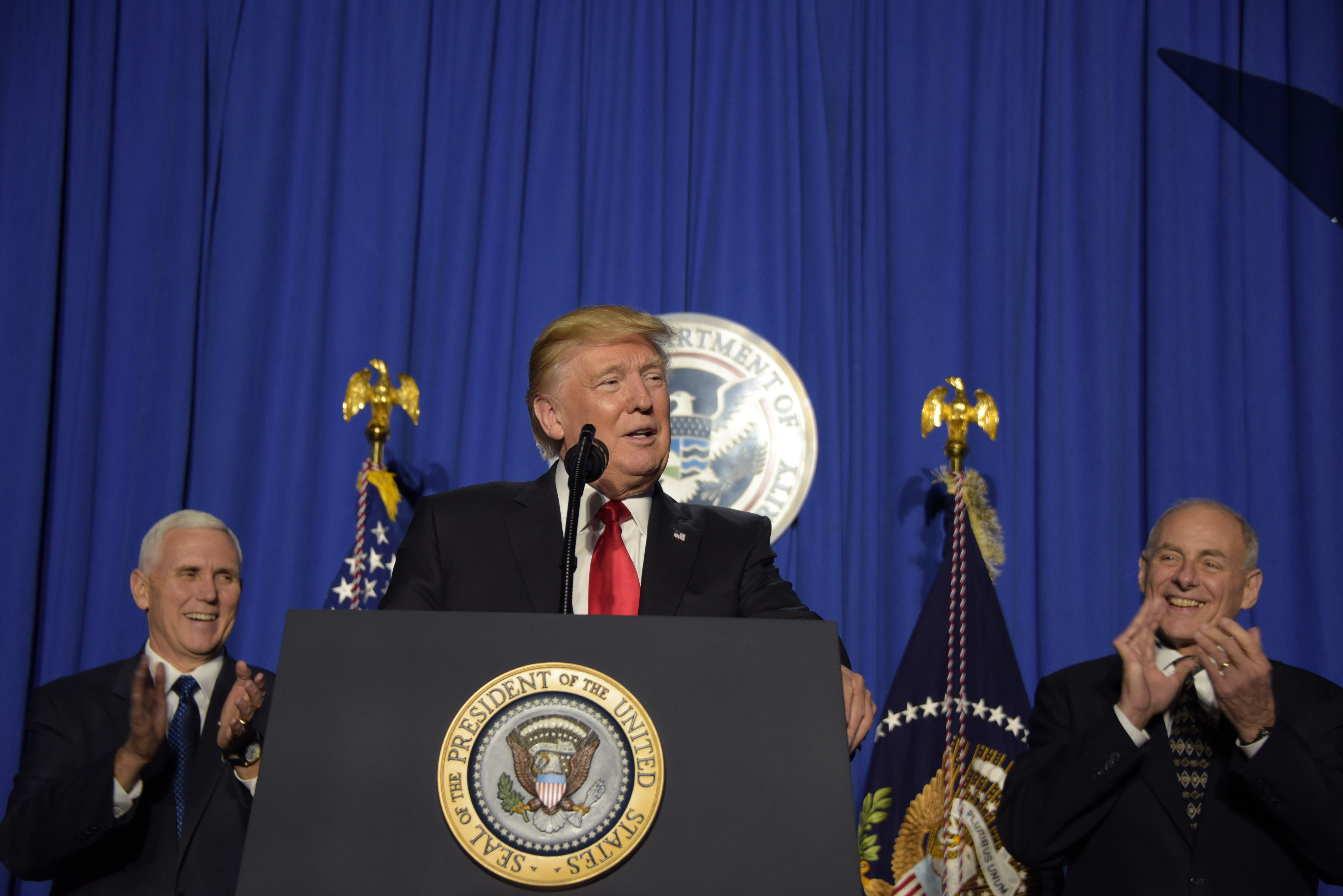 WASHINGTON - President Donald Trump delivers remarks to employees of the Department of Homeland Security in Washington, D.C. Jan. 25, 2017. President Trump praised the new Secretary of DHS, Gen. John Kelly saying: “Secretary Kelly will deliver for the American people,”. Official DHS photo by Jetta Disco.